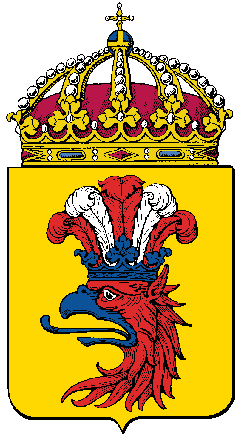 Coat of arms of the province of Kristianstad